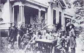 "Vandever and His Officers" Union General William Vandever (left of table, hat, bearded) with his staff officers. This picture is believed to have been taken in May 1864, during Sherman's Atlanta Campaign, outside a house belonging to Confederate Maj. C. H. Smith on East Fourth Avenue in Rome, Georgia. Notwithstanding the title above, General W.T. Sherman does not appear in this picture. See below for link to a larger and higher-resolution version of this image.